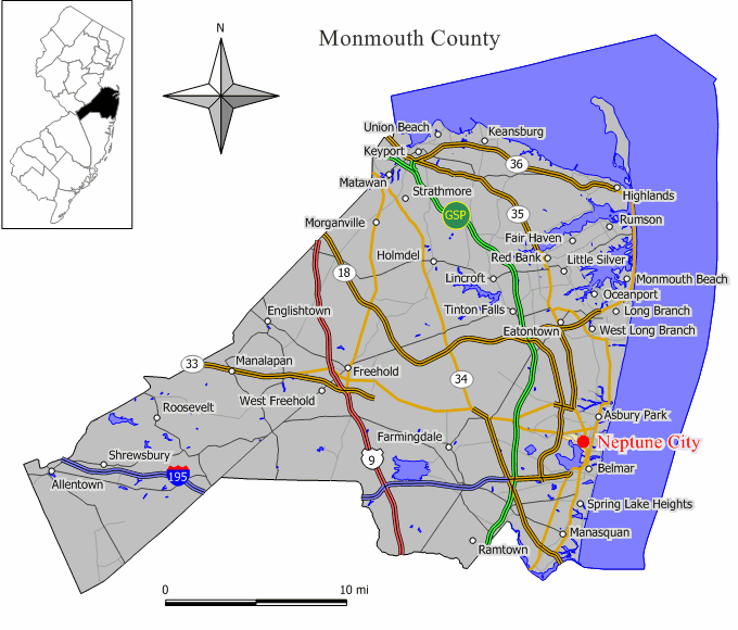 Source: Jim Irwin